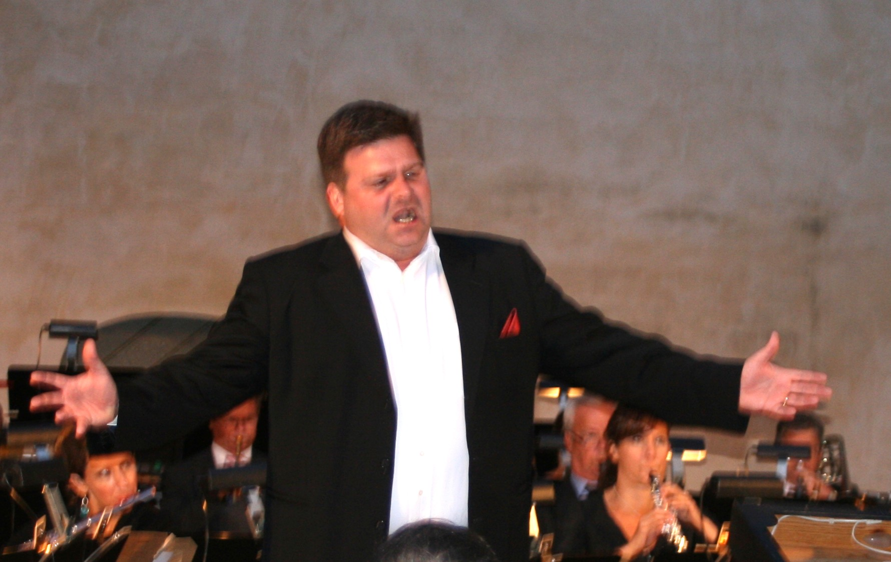 Michael Weinius (born 1971), Swedish tenor, singing out loud. At the festival Östergötlands musikdagar 2009, at Linköping castle, Linköping, Sweden.